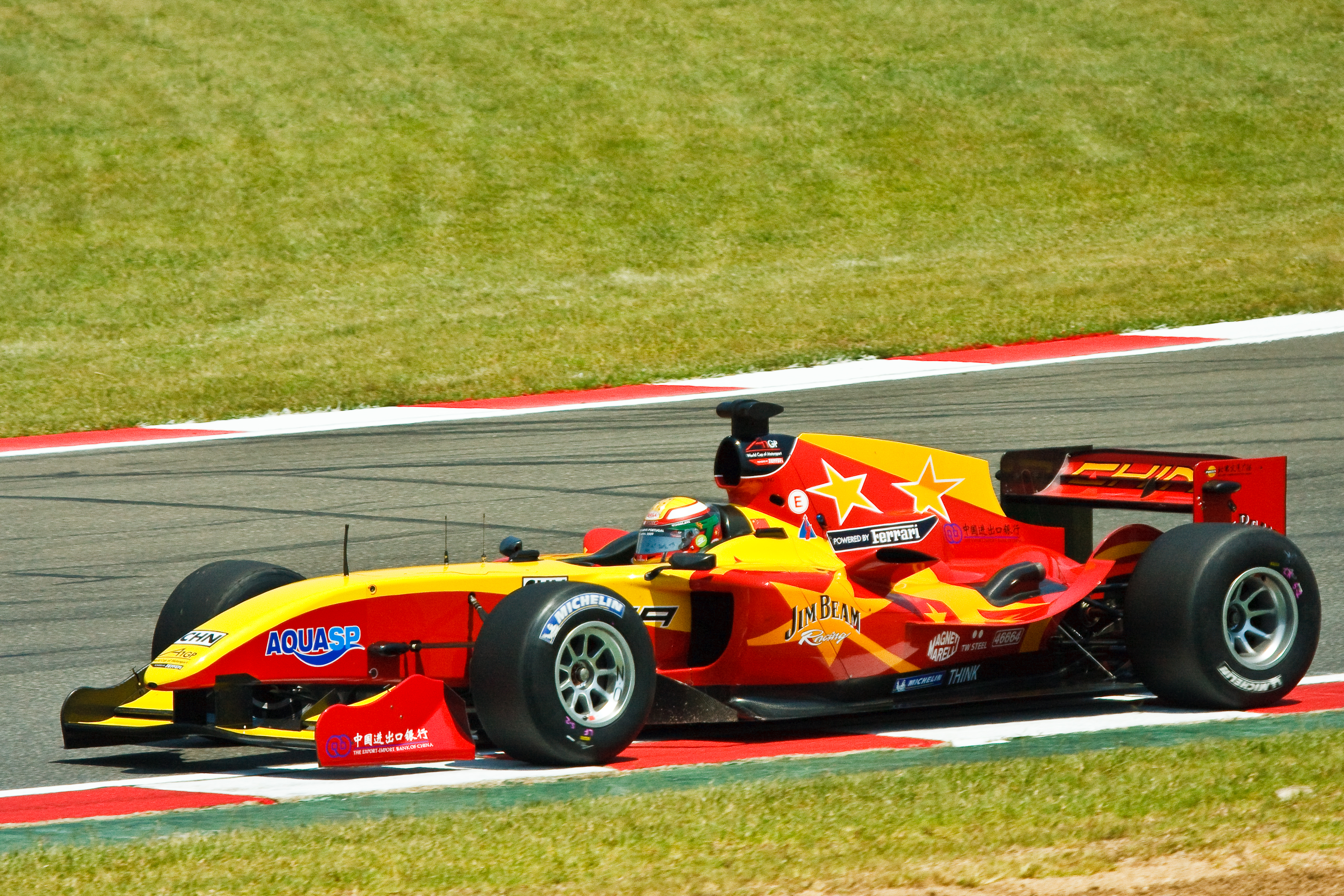 A1 Grand Prix, Team China on 2009-02-22